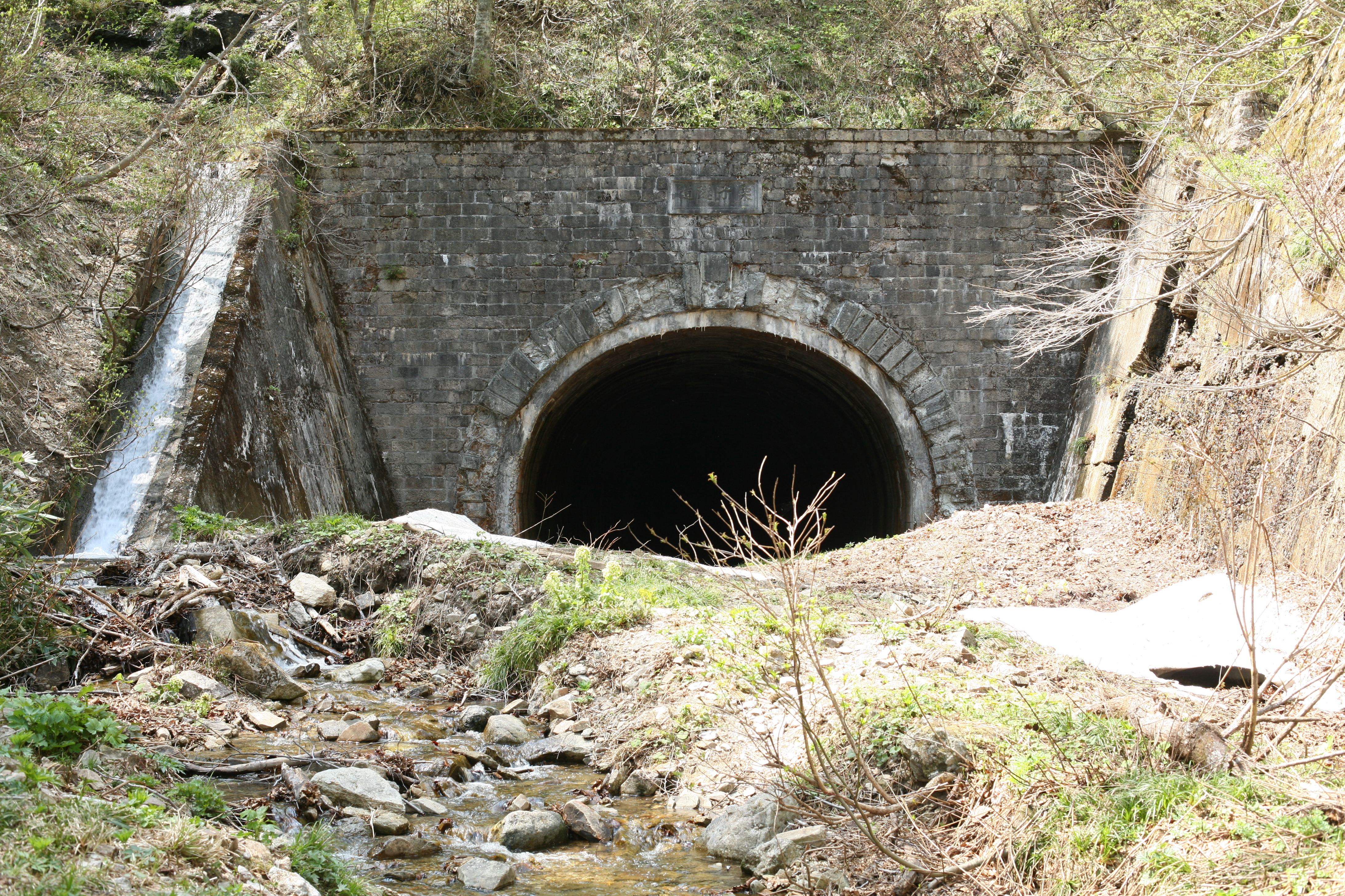 Former R13, Kuriko tunnel, Fukushima side portal. Completed in 1880, improved in 1938. Now obsoleted and being occlusion.